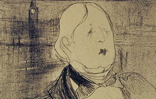 Oscar Wilde drawn by Henri de Toulouse-Lautrec, (1864-1901).